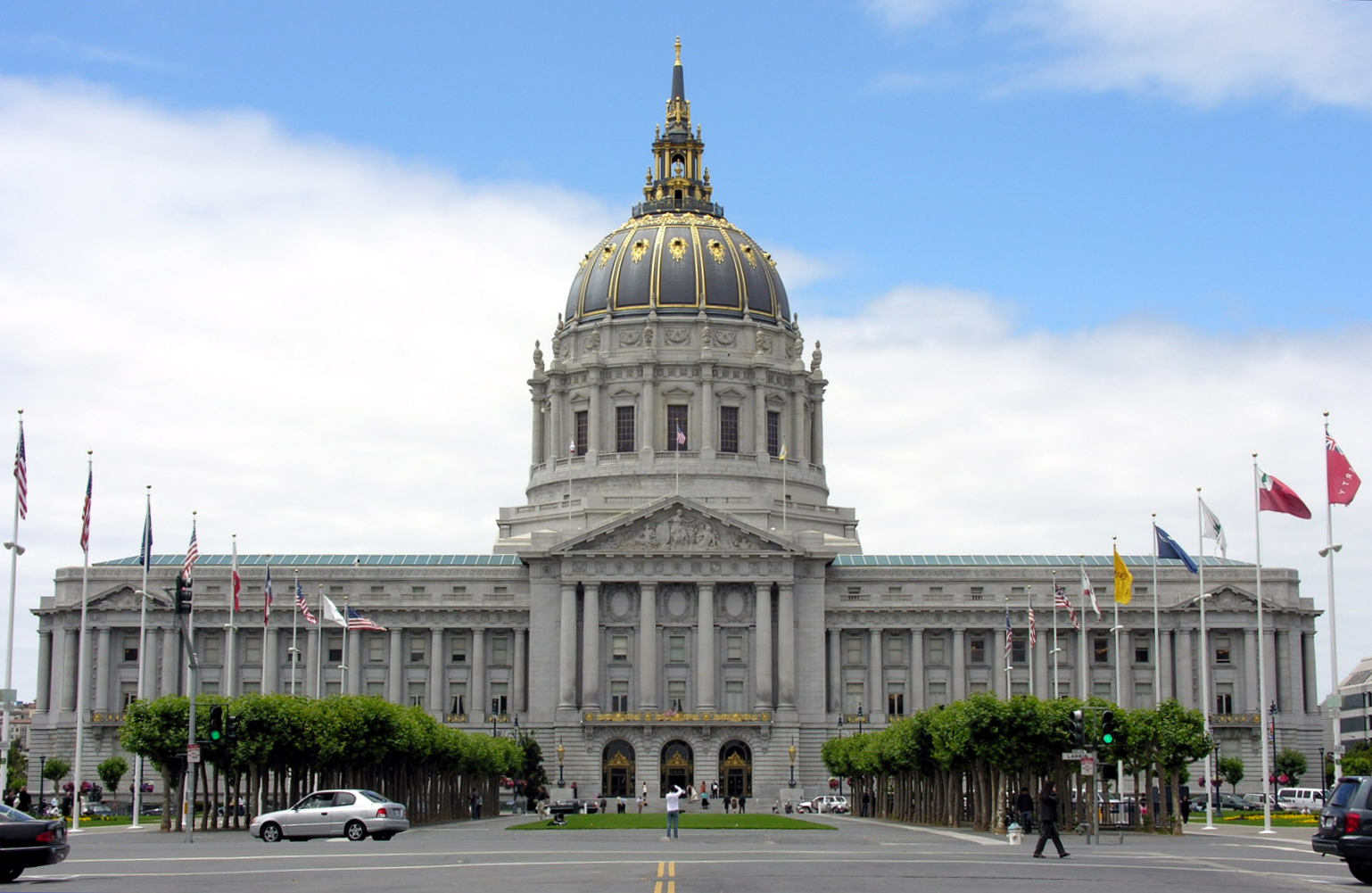 Picture of the San Francisco City Hall after seismic retrofit with the help of base isolation